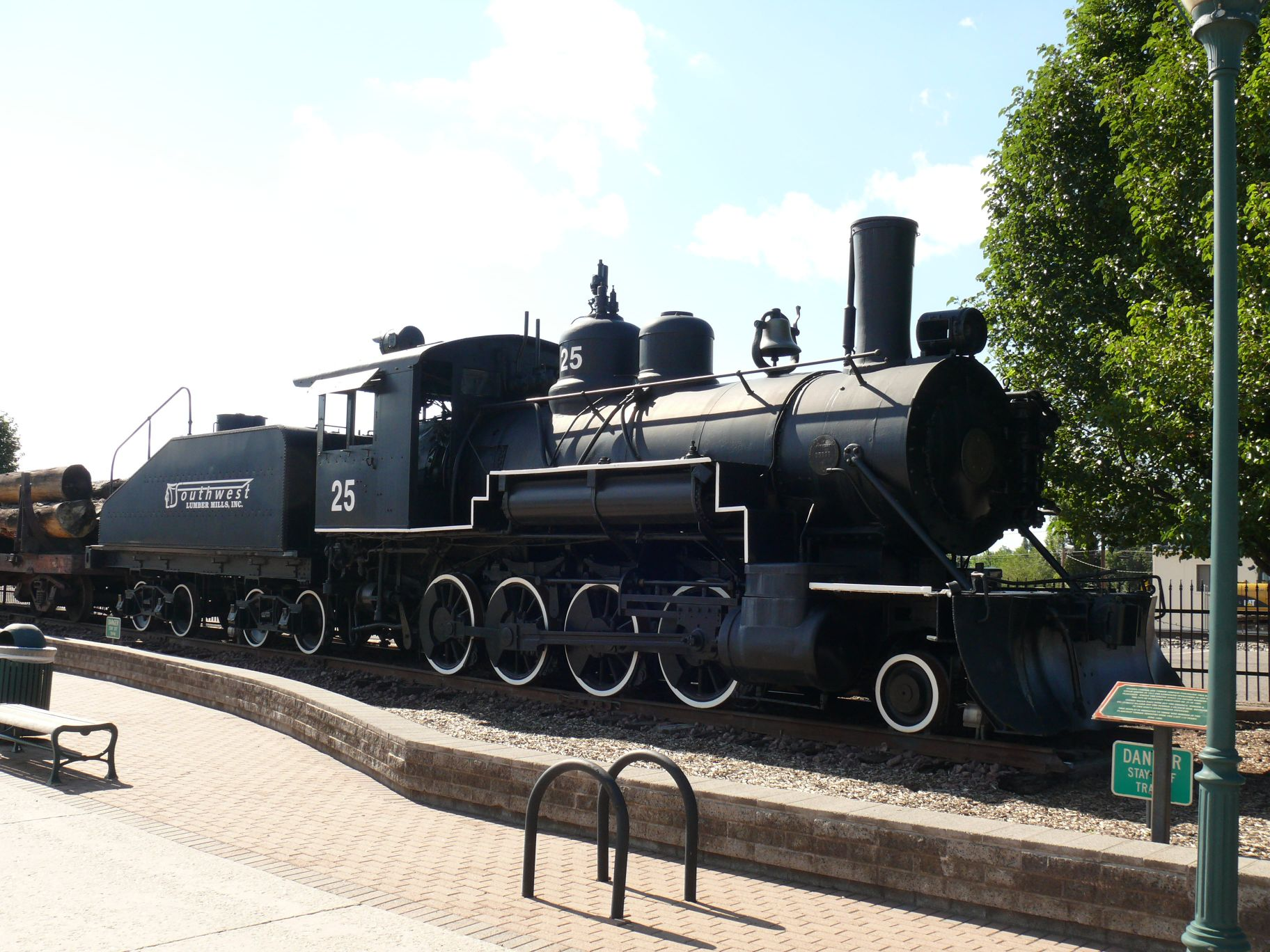 The Two Spot Logging Train in Flagstaff (Arizona, USA).